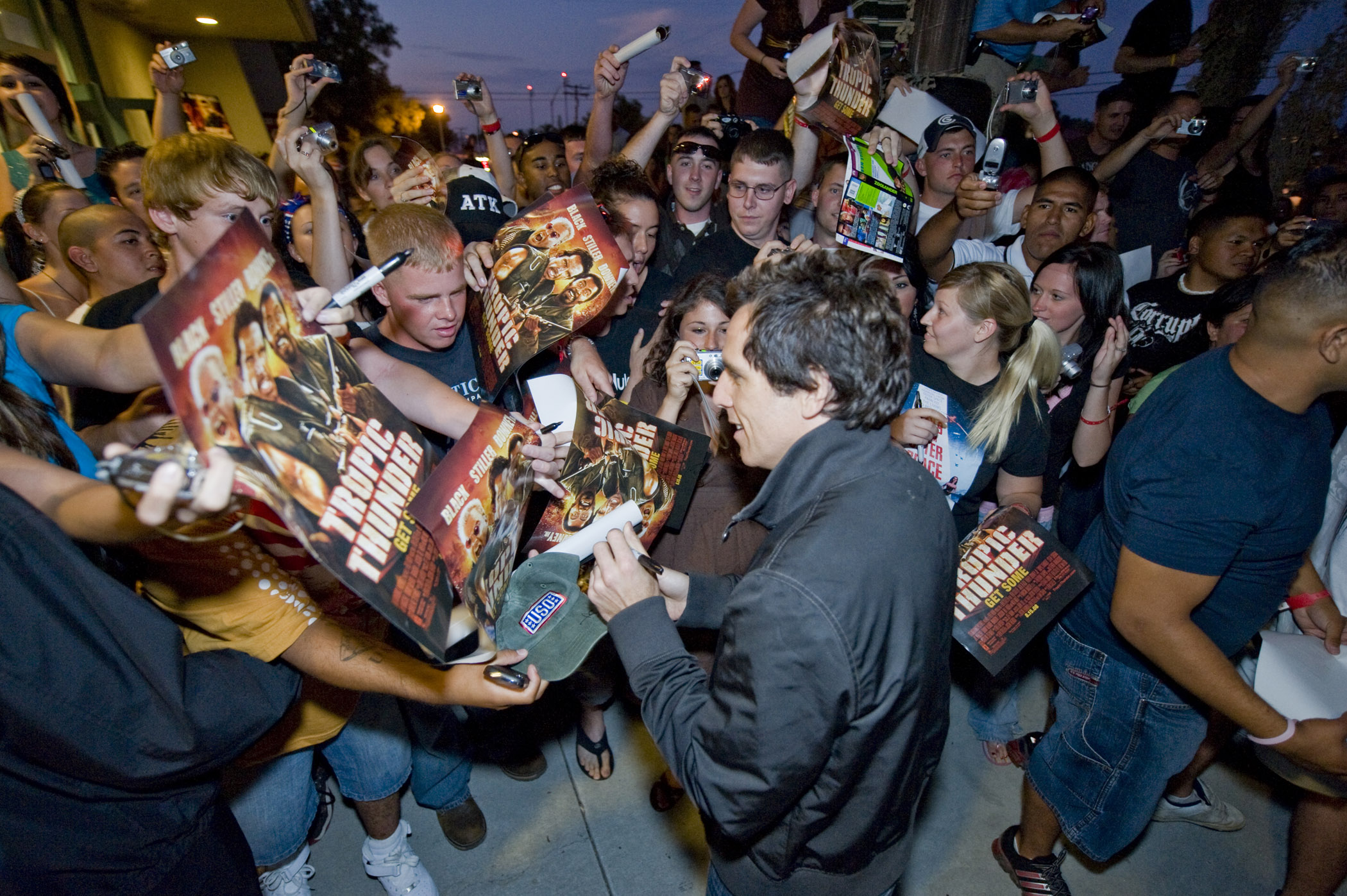 Director/actor Ben Stiller signing autographs prior to a screening for Tropic Thunder at Camp Pendleton.